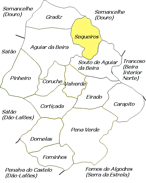 Map of Sequeiros parish in Portugal. Author: Kullanıcı:Mskyrider.